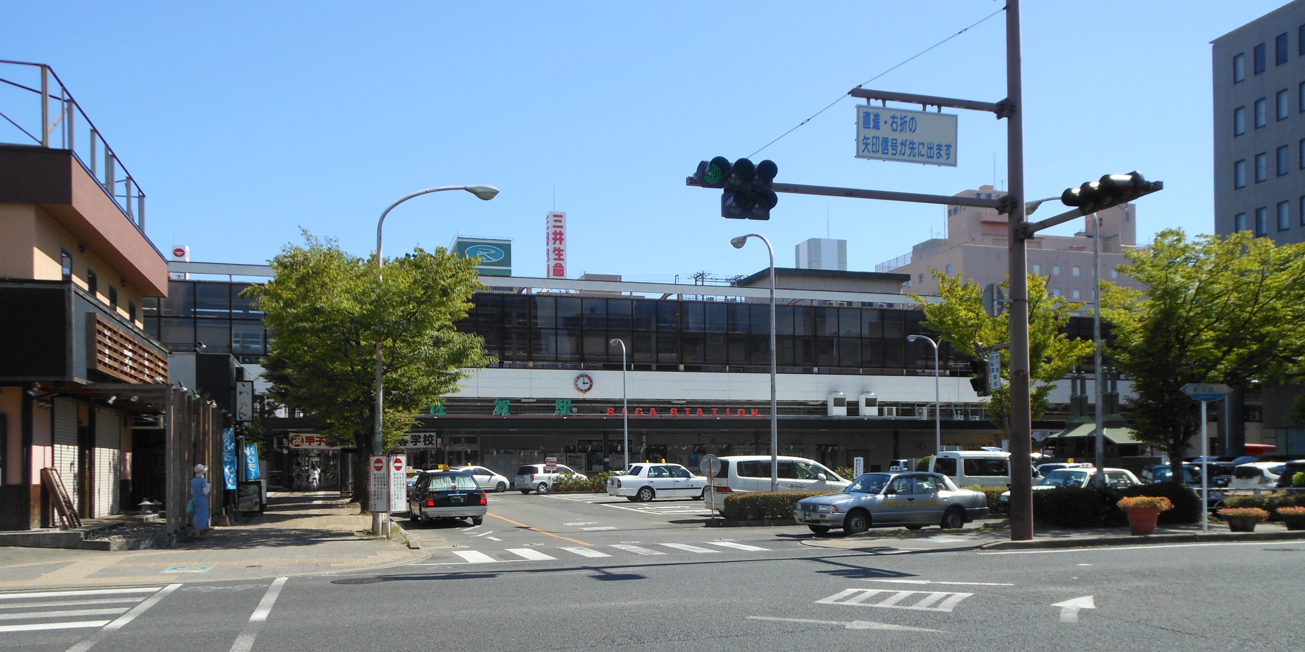 North front of Saga station, Saga city, Saga prefecture, Japan.